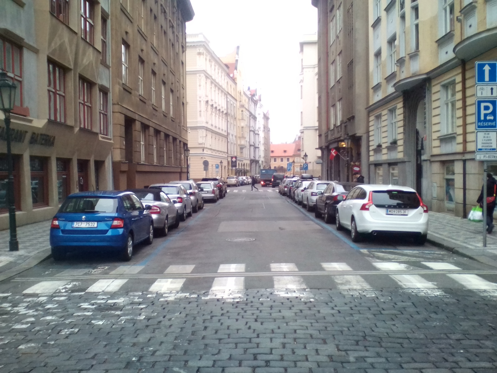 Bilkova street in Prague